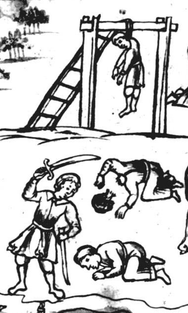 Execution of "troublesome" Cossacks on the Volga